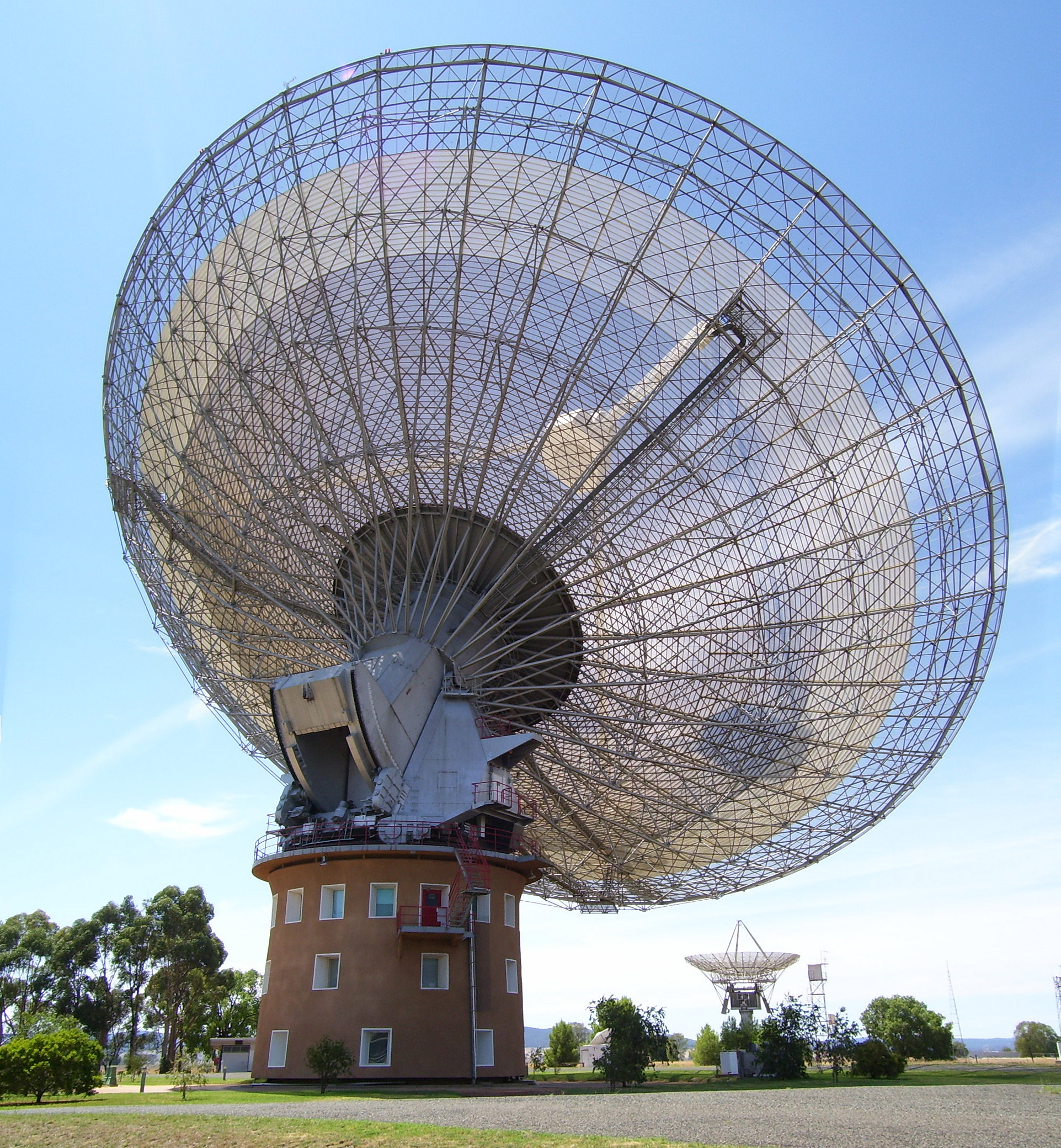 Parkes radio telescope viewed from the visitor's area. Panorama created from two separate images.